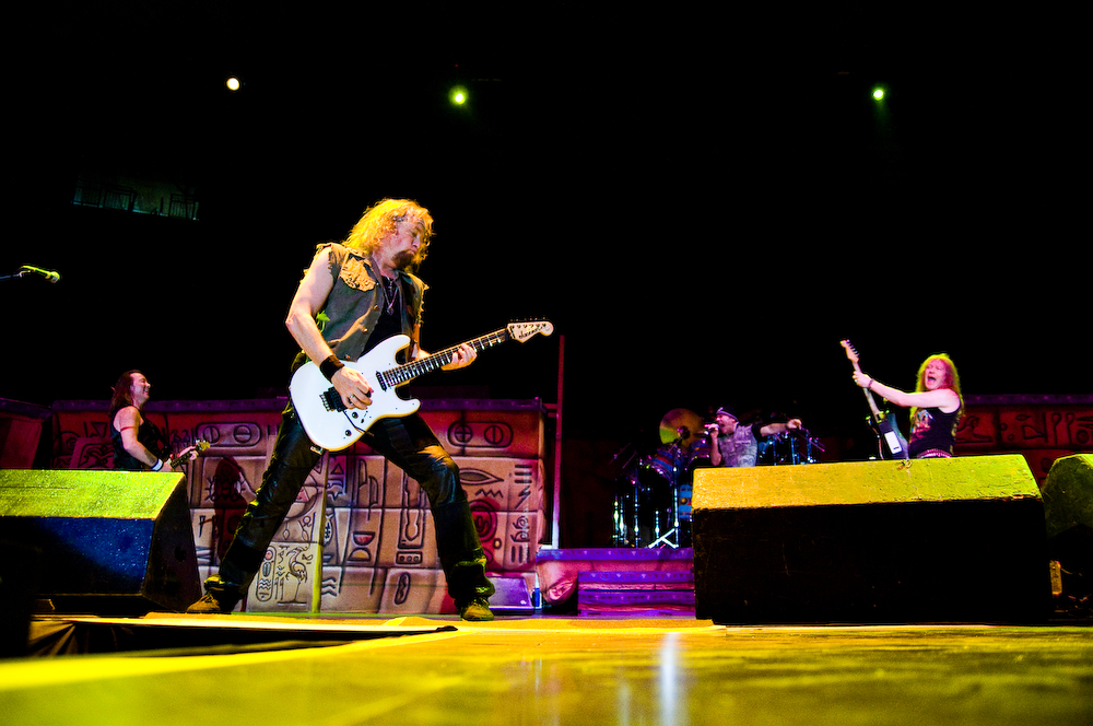 Iron Maiden live in Brazil (2009)